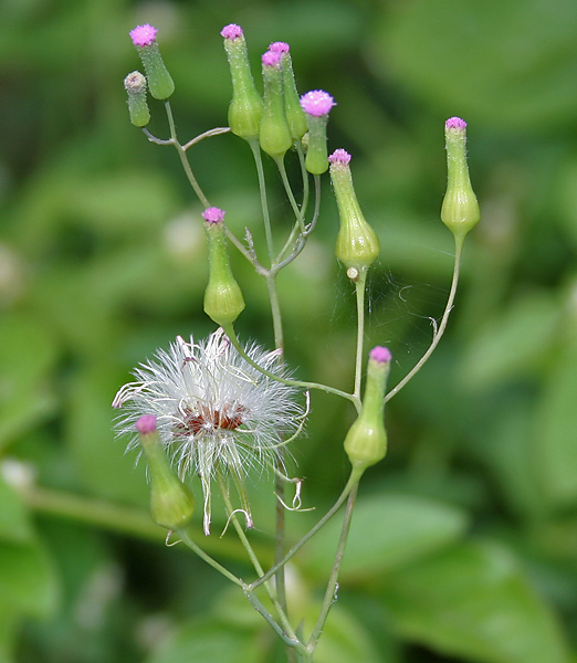 Flora's Paintbrush, Sadamandi, Cupid's shaving-brush, purple sow thistle or red tassel-flower Emilia sonchifolia in Hyderabad , India.